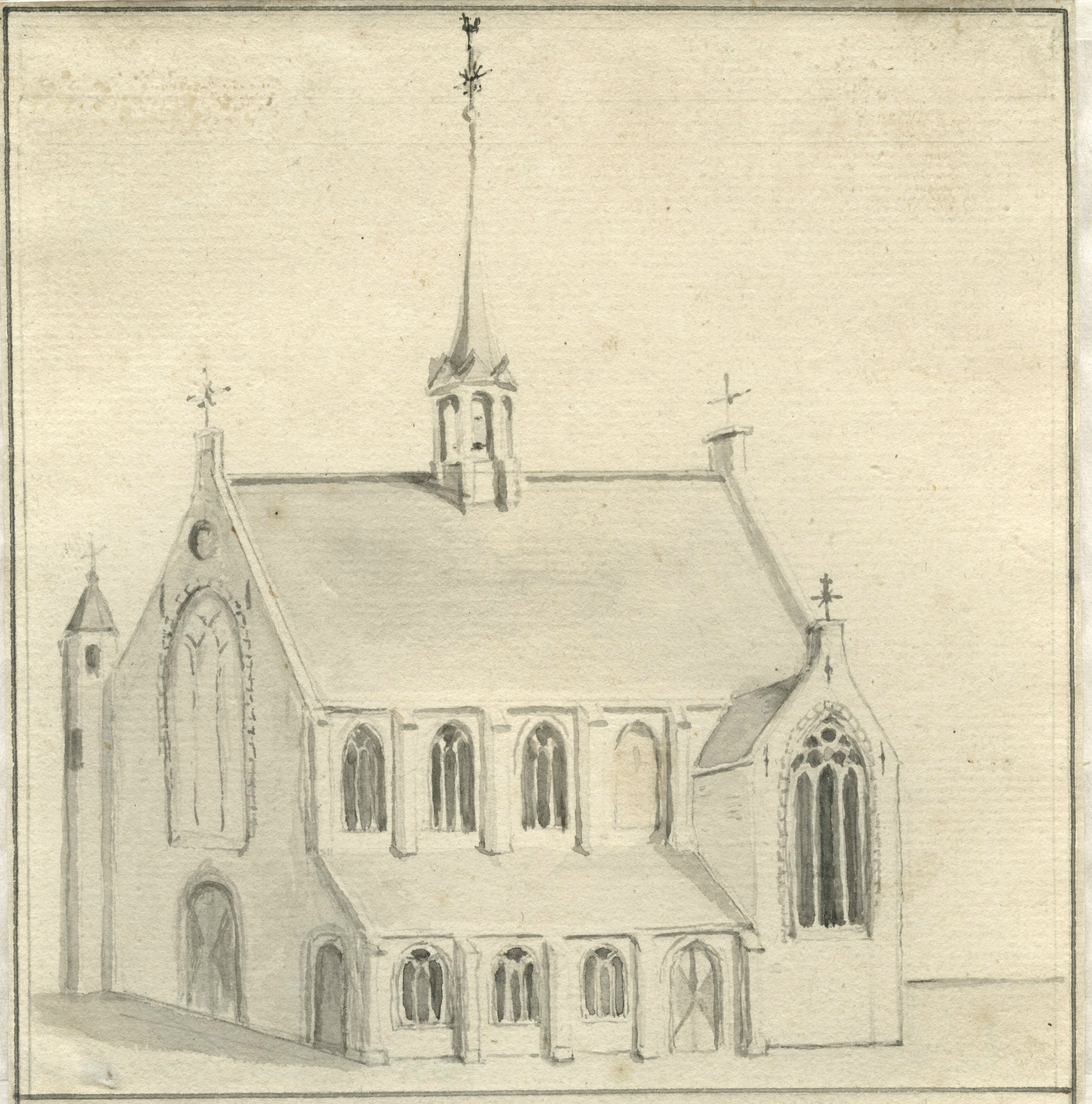 Hofkapel op het Binnenhof, Den Haag pen en penseel in grijs, over sporen van potlood 1777